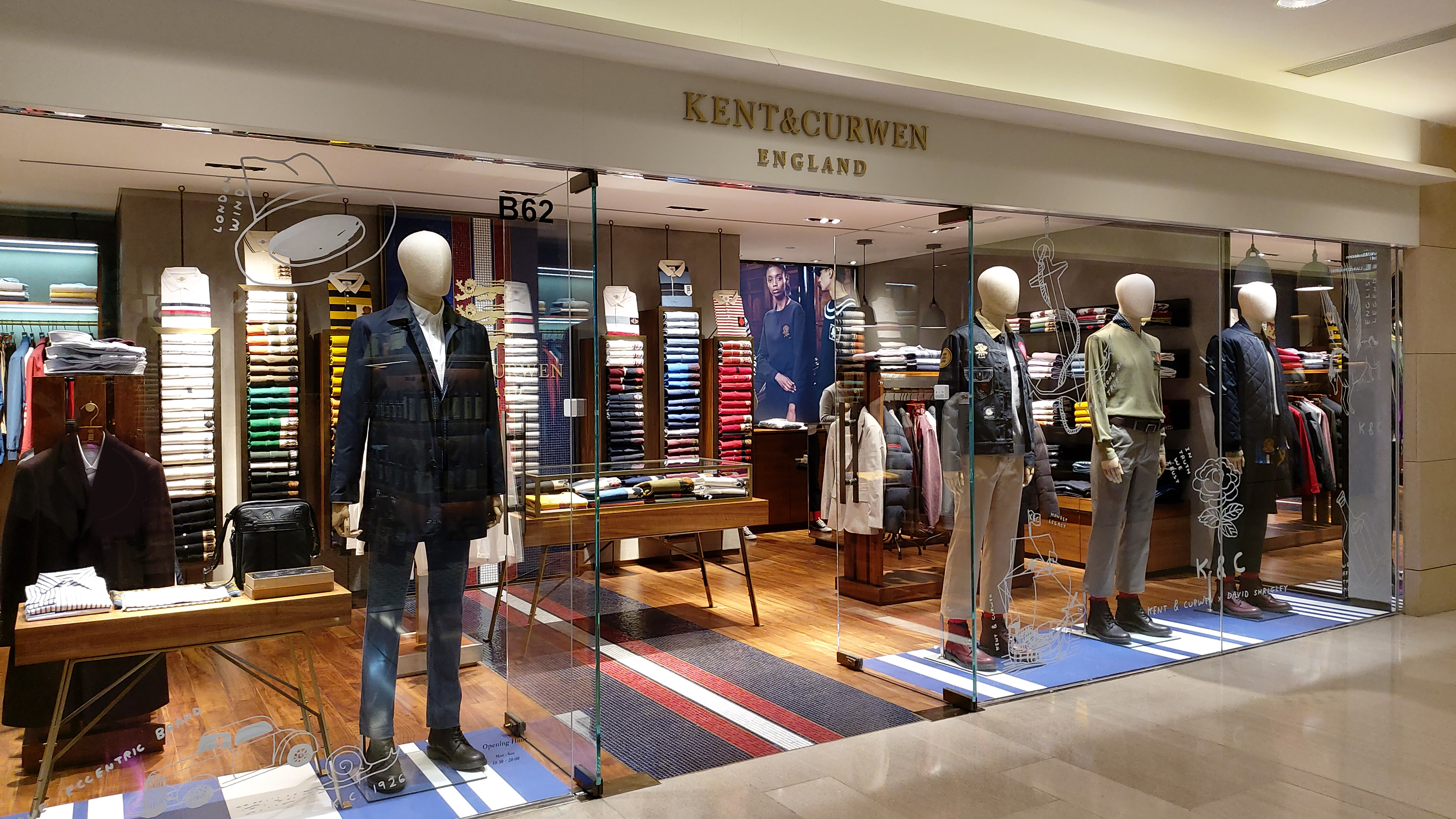 Kent & Curwen Store in Hong Kong